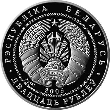 "Pharny Roman Catholic Church. Niasvizh". Silver commemorative coins, denomination: 20 rubles